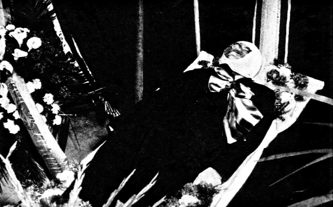 Alberto Ascari's body during his funeral after killing in Monza circuit.